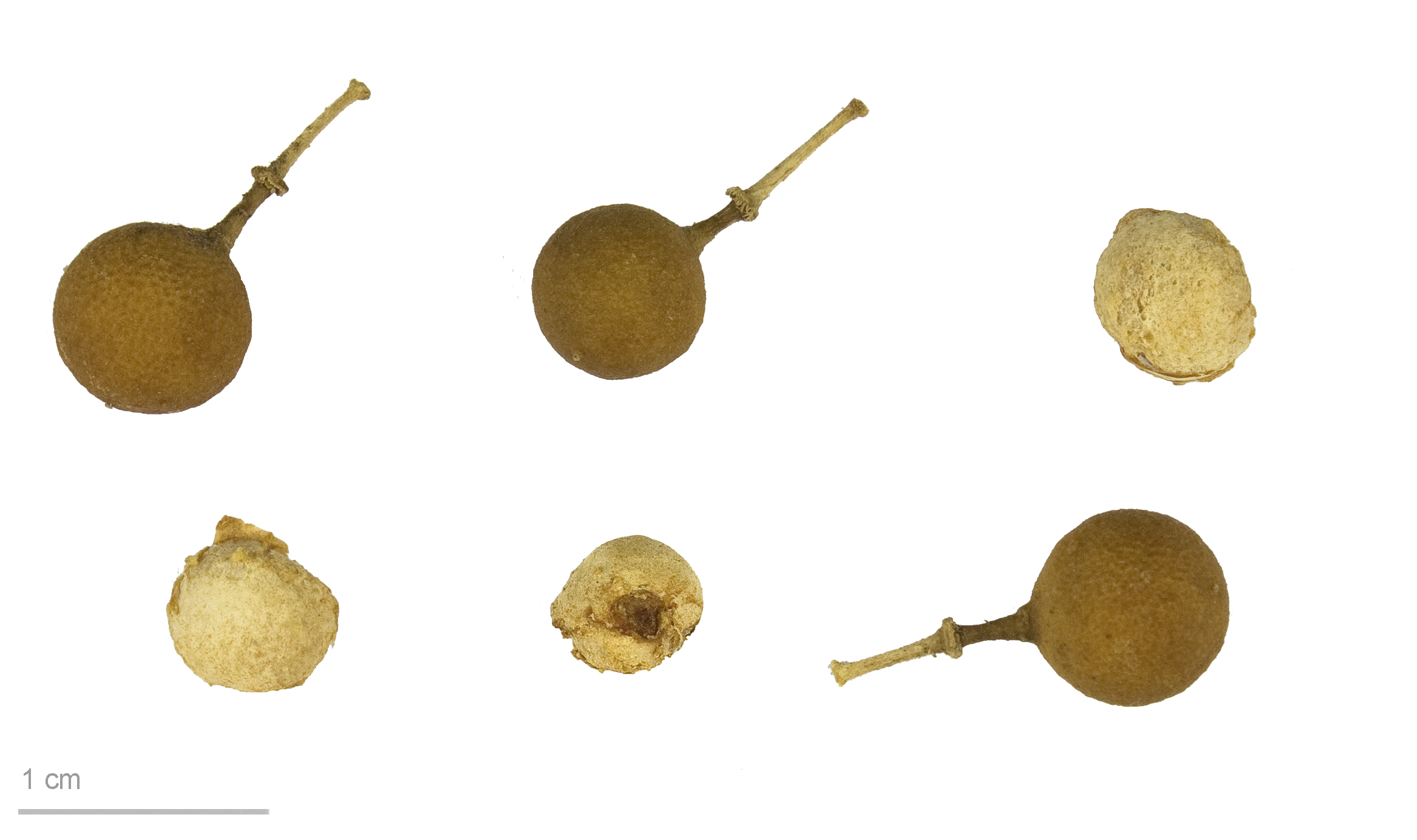 Boscia angustifolia , fruits and seeds